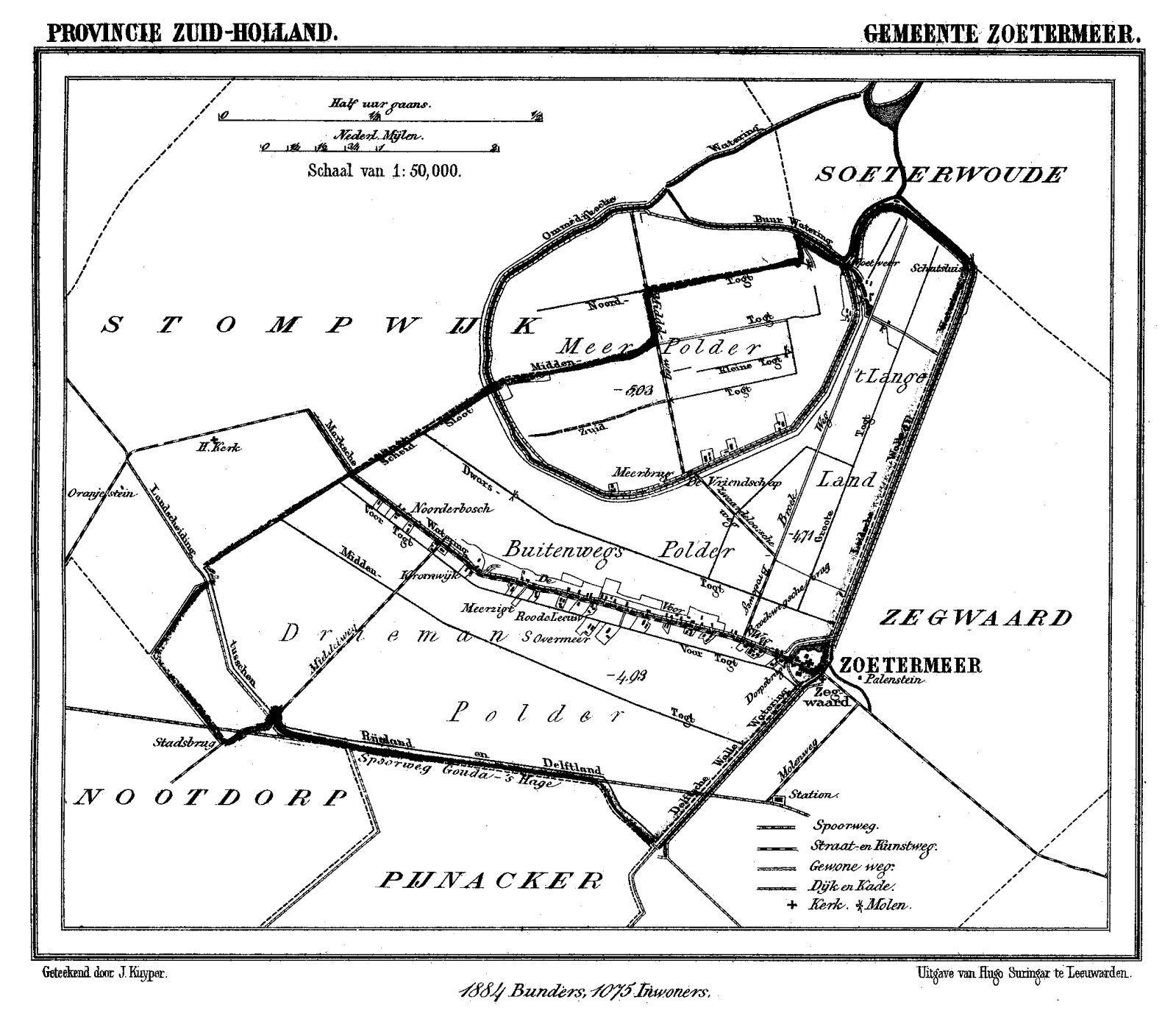 Historic map of municipality Zoetermeer, South Holland, the Netherlands